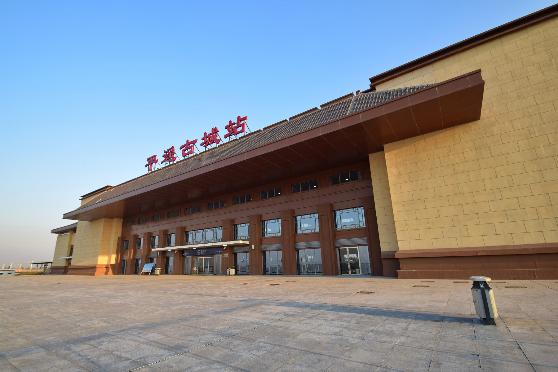 Pingyao Gucheng Railway Station, Datong-Xi'an High-Speed Railway